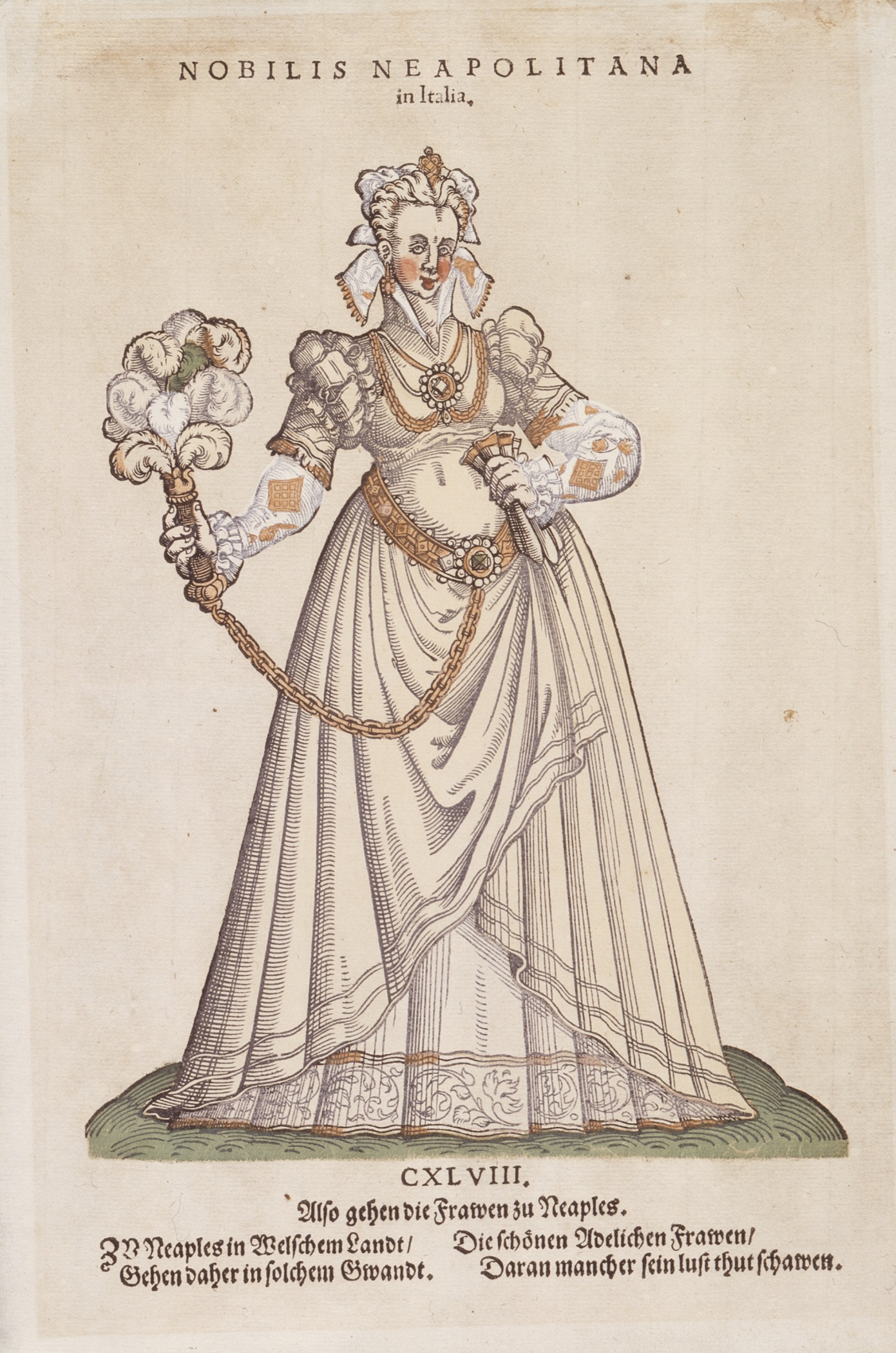 Germany, 1577 Prints; woodcuts Woodcut, ink on paper, colored in pochoir technique Gift of Mr. and Mrs. Marvin M. Chesebro (M.87.164.2) Costume and Textiles